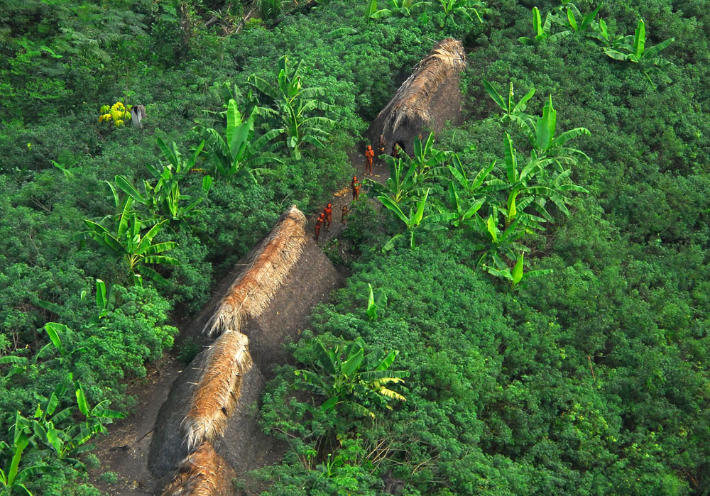 Uncontacted indigenous tribe in the brazilian state of Acre.